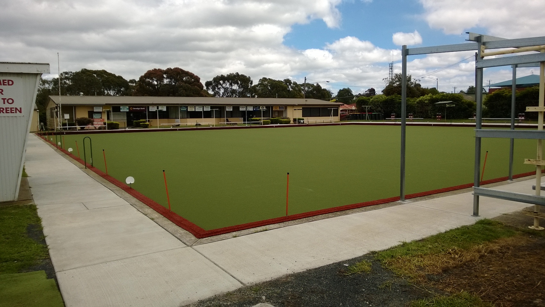 Synthetic Bowls green.